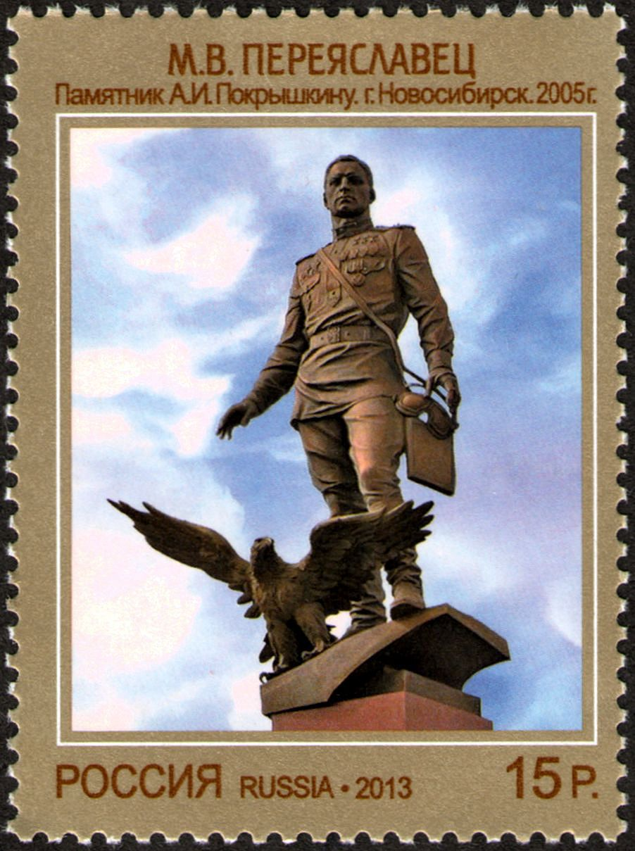 The contemporary art of Russia (the ongoing series, issue III).The monument to Alexander Pokryshkin in Novosibirsk by Mikhail Pereyaslavets. 2005. Bronze. Height of the figure without the pedestal: circa 6 m.Mikhail Vladimirovich Pereyaslavets (born 1949) is a Russian sculptor, a People's Artist of the Russian Federation, a full member of the Russian Academy of Arts, a Professor of the Surikov State Academic Institute of Fine Arts in Moscow.The stamp of Russia, 15.00 Rubles, 25 October 2013, PTC Marka Catalogue No 1742, Michel No 1974. Coated paper, varnish coating, bronze paste. Offset printing. Perforation: comb 11½×12. Size of the stamp: 37×50 mm. Print run: 300,000.